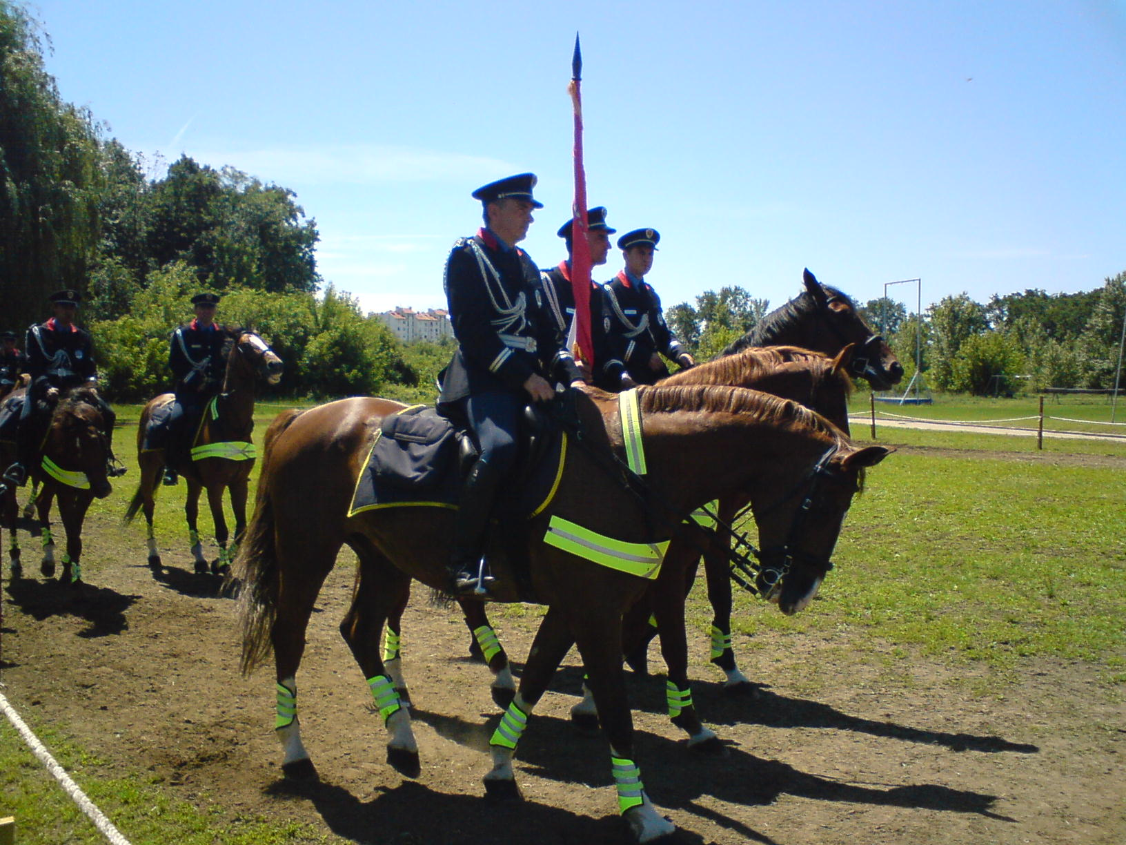 Mounted police in Serbia,cavalry company Belgrade.